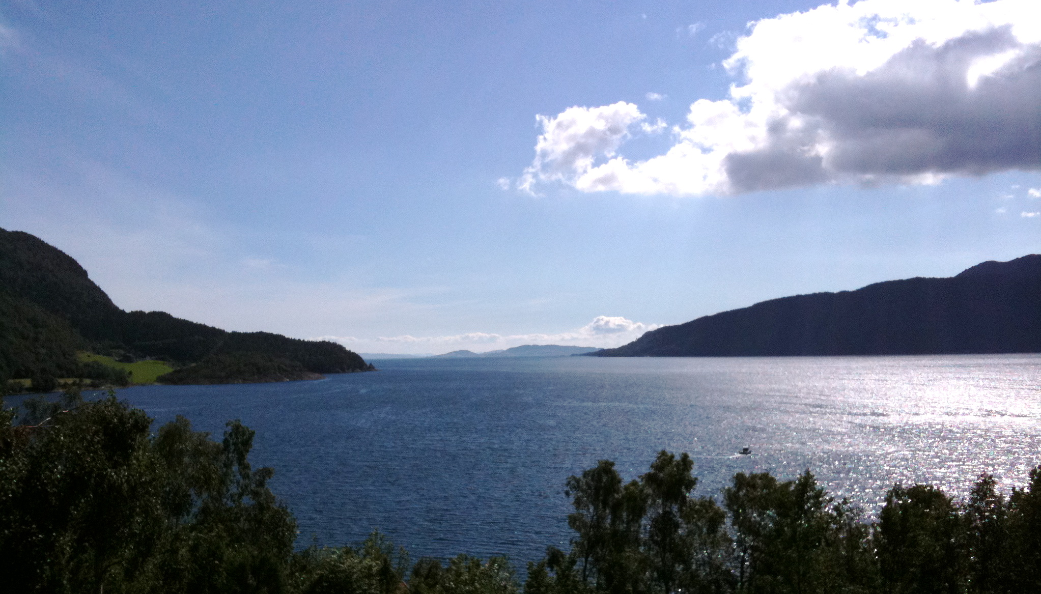 Vindafjorden a fjord in the municipalities of Tysvær, Vindafjord and Suldal in Rogaland, Norway